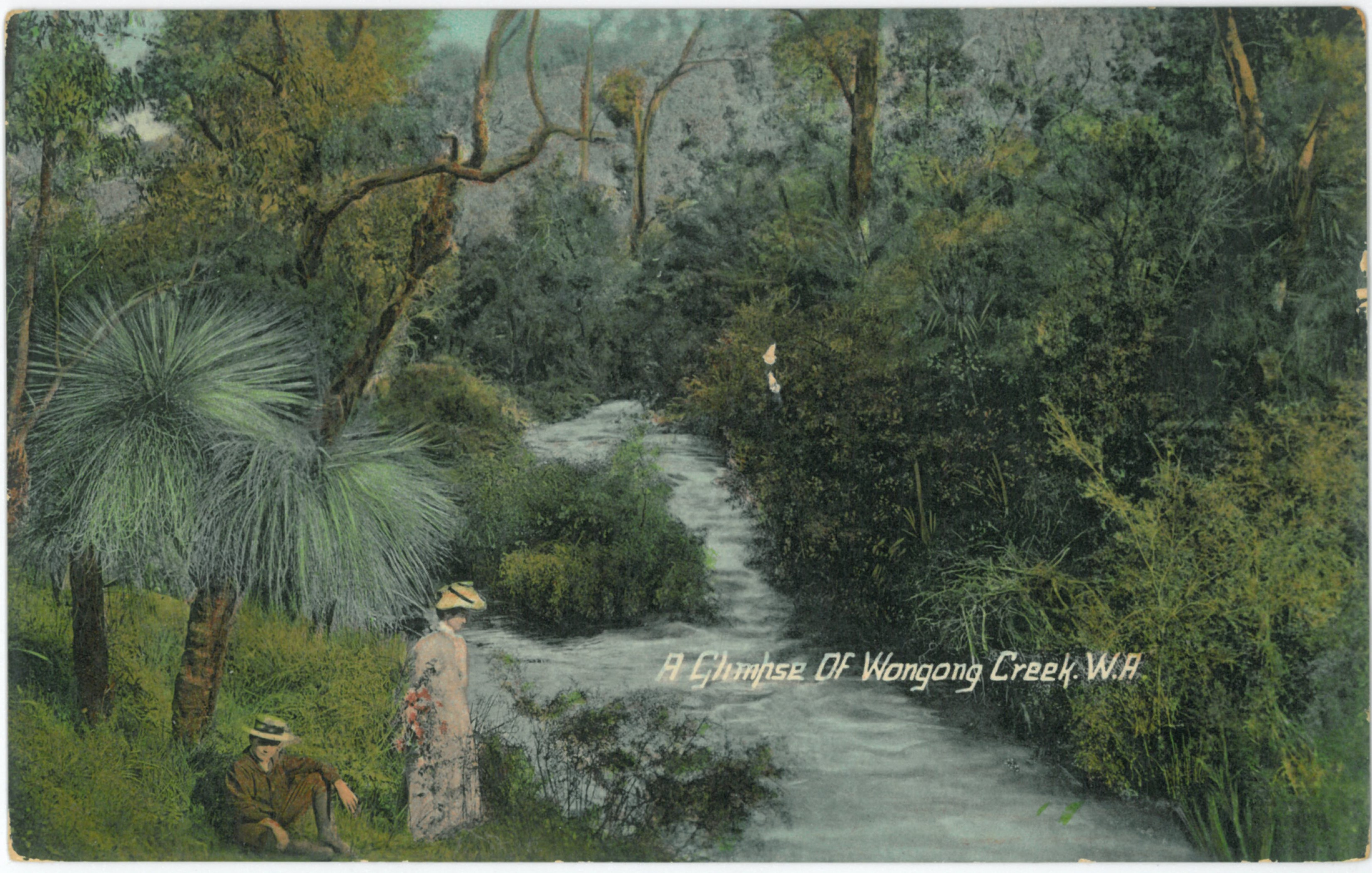 Postcard (c.1900) titled 'A Glimpse Of Wongong Creek.W.A', representing the area near the South-Western Highway that for a time was a popular picnic destination.